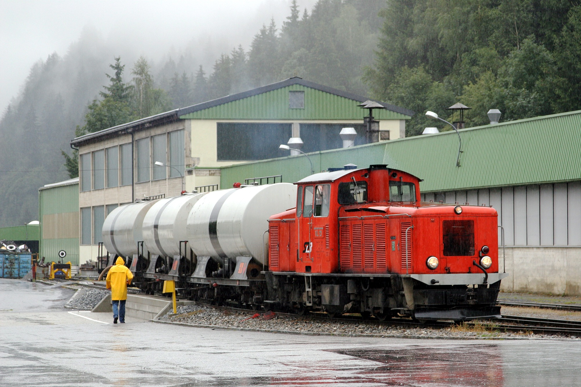 Narrow Gauge Diesel locomotive VL13 shunting tank wagons in Murau station